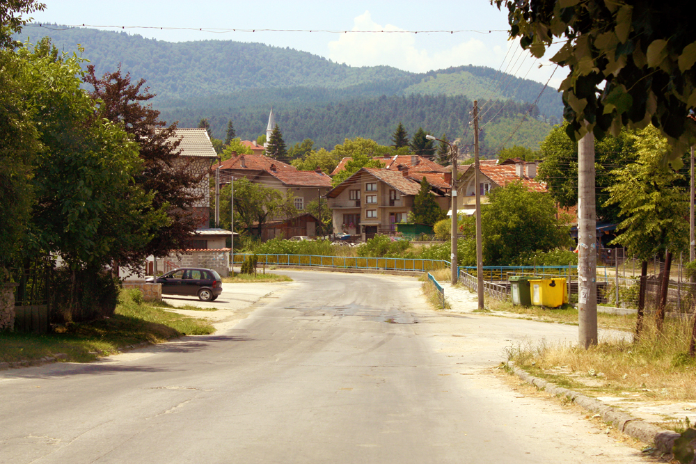 Rakitovo street crossing next to Chepinska river